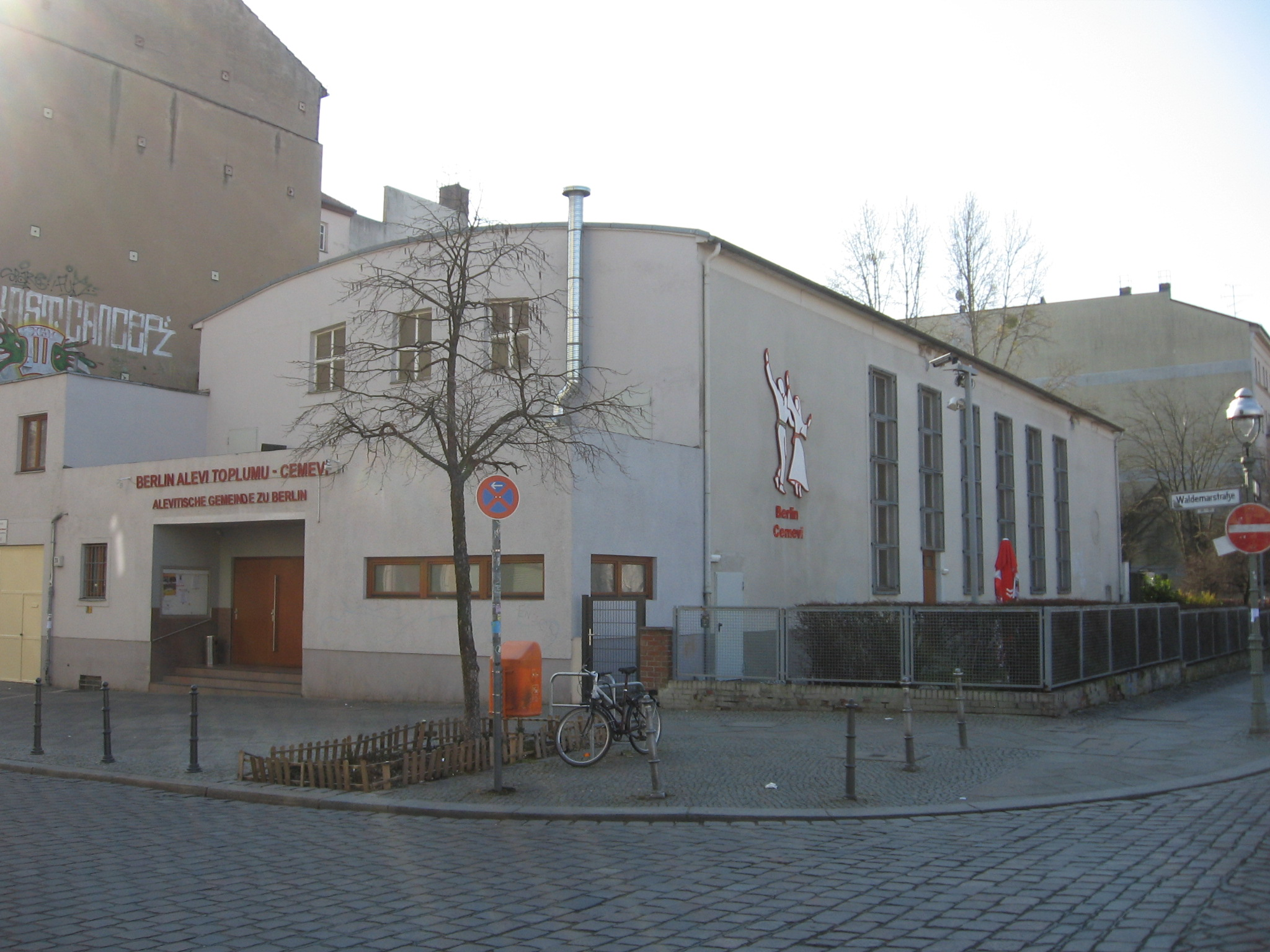 AAKM-Cemevi in der Waldemarstraße in Kreuzberg. Ist ein alevitisches Gebetshaus und Gemeindezentrum. Es wird vom Verein „Almanya Alevi Birlikleri Federasyonn“ (Alevitische Gemeinde Deutschlands) betrieben.